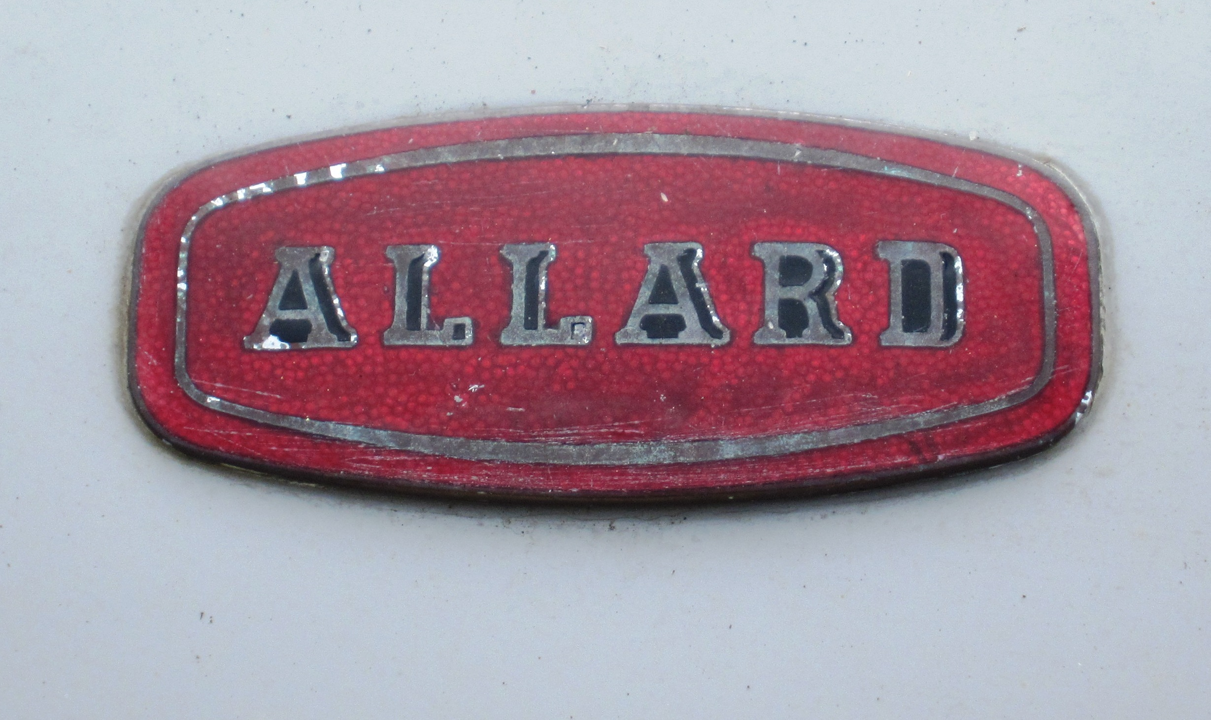 Allard Badge